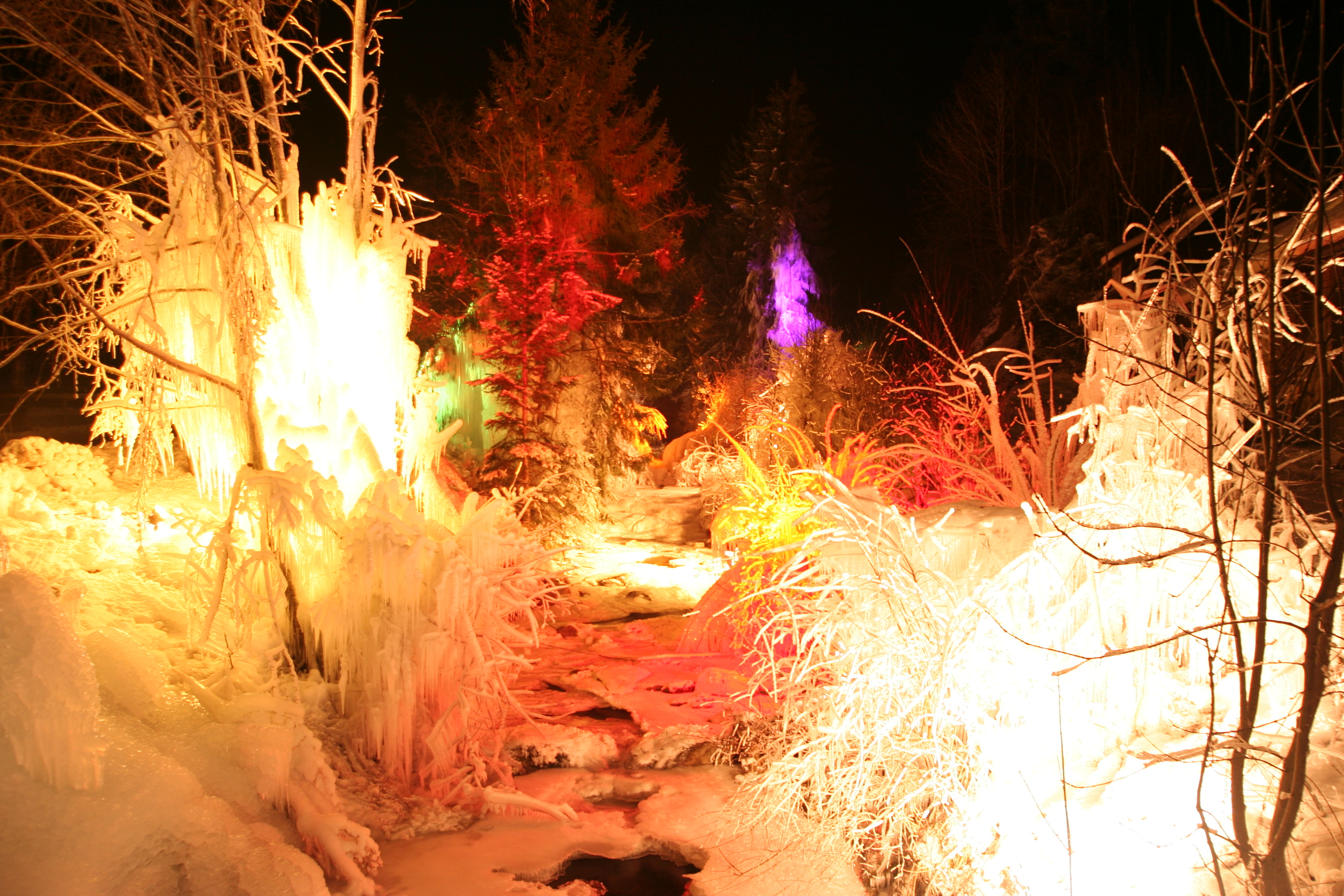 Pruggern , Styria, Austria